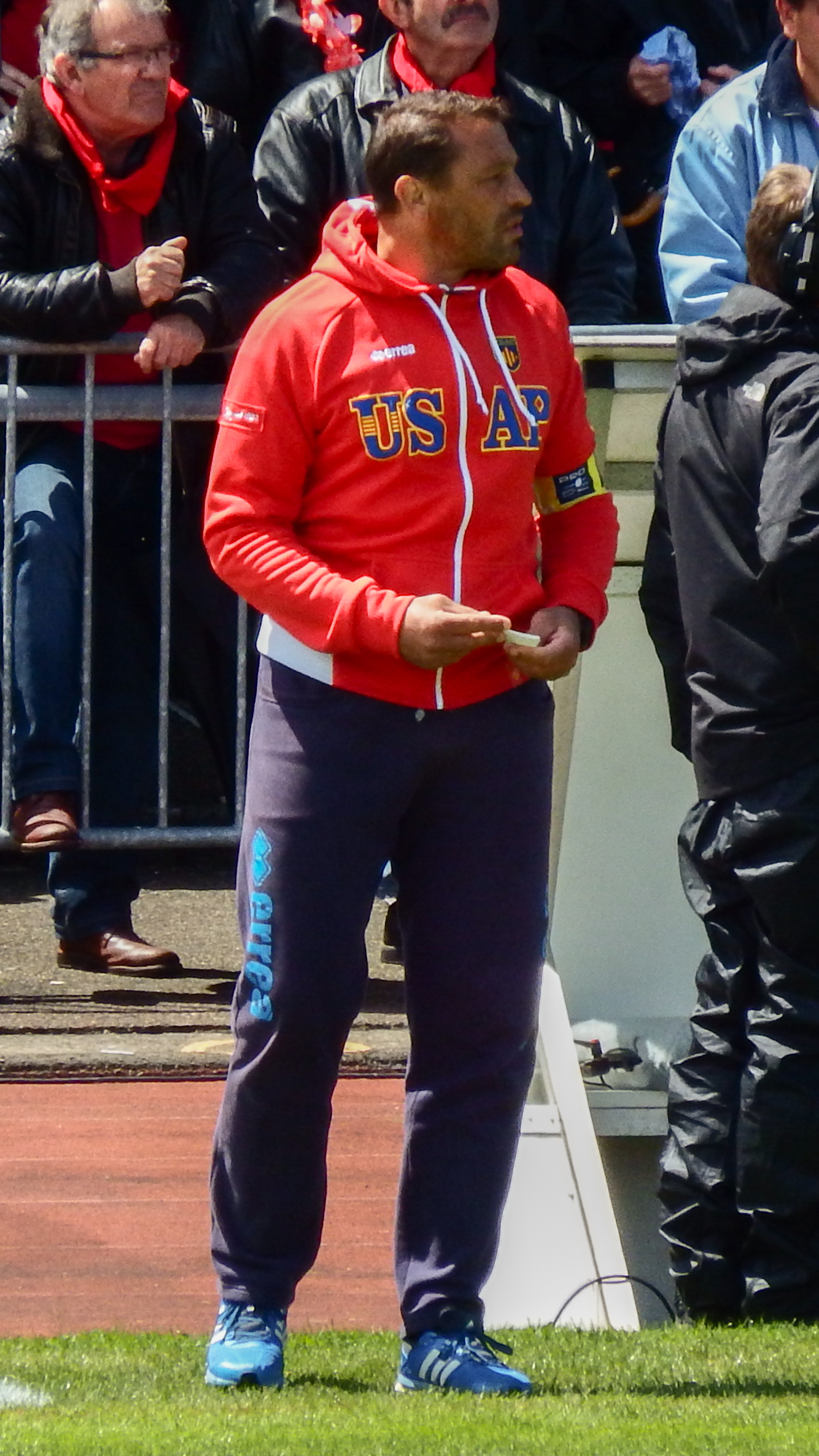 Q20724161 — 22 May 2016, stade Maurice-Boyau. Match between: US Dax — USAP Perpignan